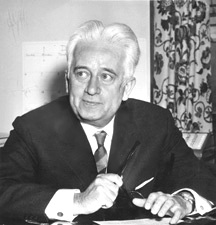 Congressman, Senator and Ambassador Kenneth Keating